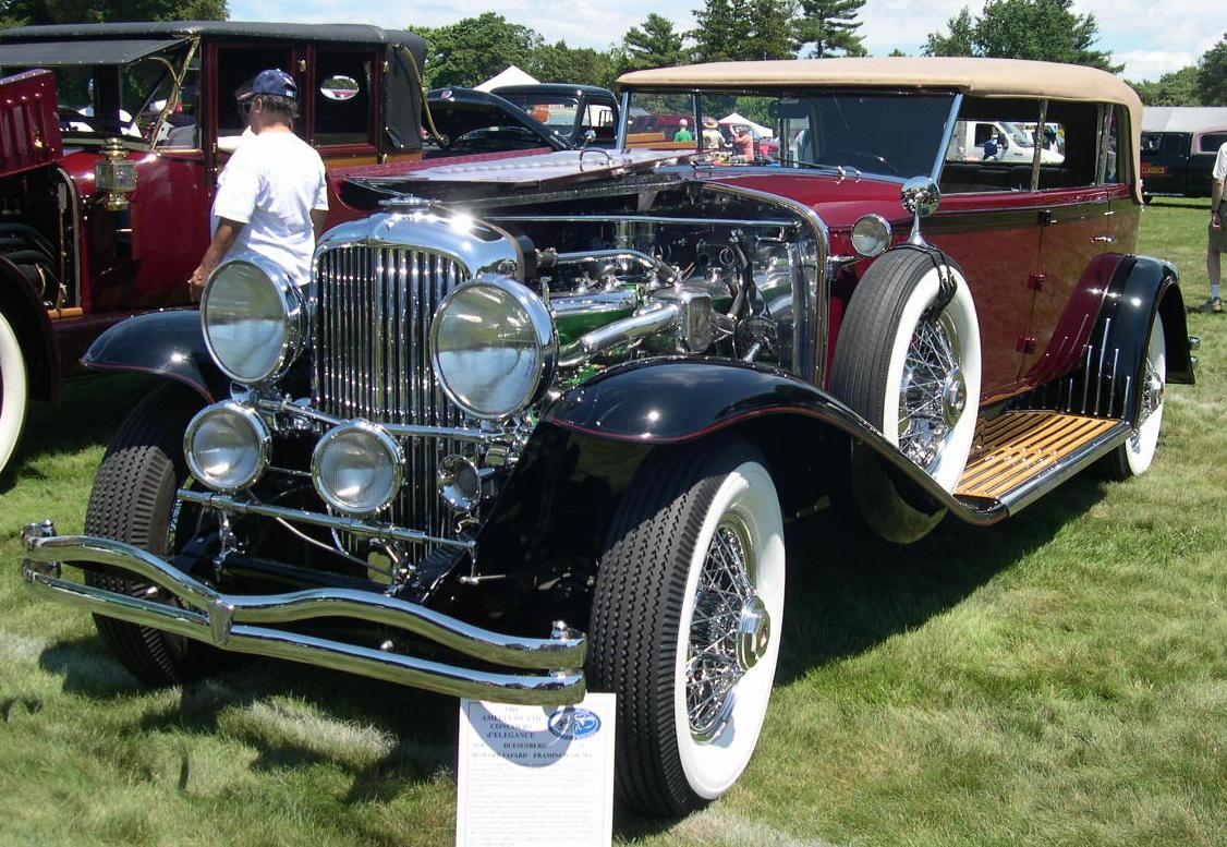 1934 Duesenberg J Source: Photographed at the Bay State Antique Automobile Club's July 10, 2005 show at the Endicott Estate in Dedham, MA by User:Sfoskett